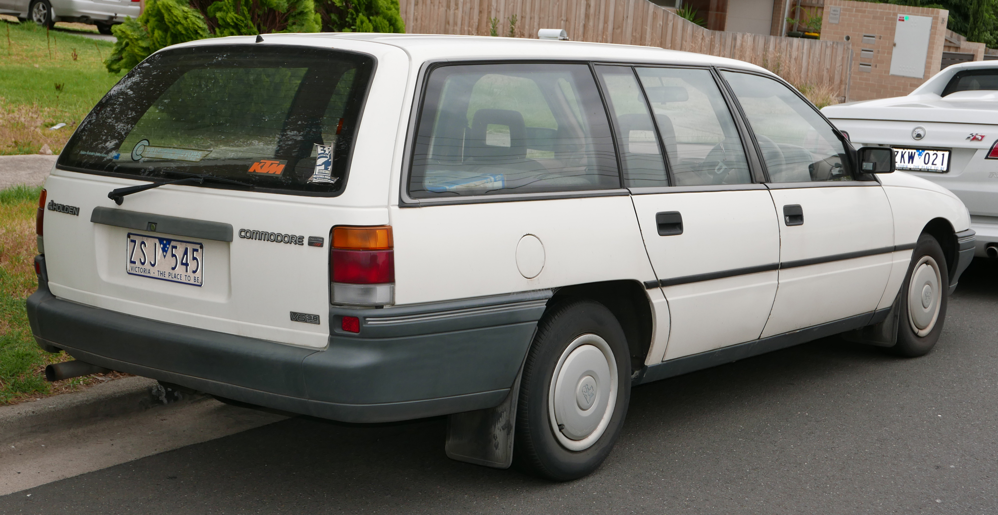 1989 Holden Commodore (VN) Executive station wagon. Photographed in Pascoe Vale, Victoria, Australia. Vehicle registration enquiry results Jurisdiction Victoria Registration ZSJ545 Chassis code 6H8VNK35HKL329736 Engine code VH1038108 Compliance date 1989-03 Year of manufacture 1989